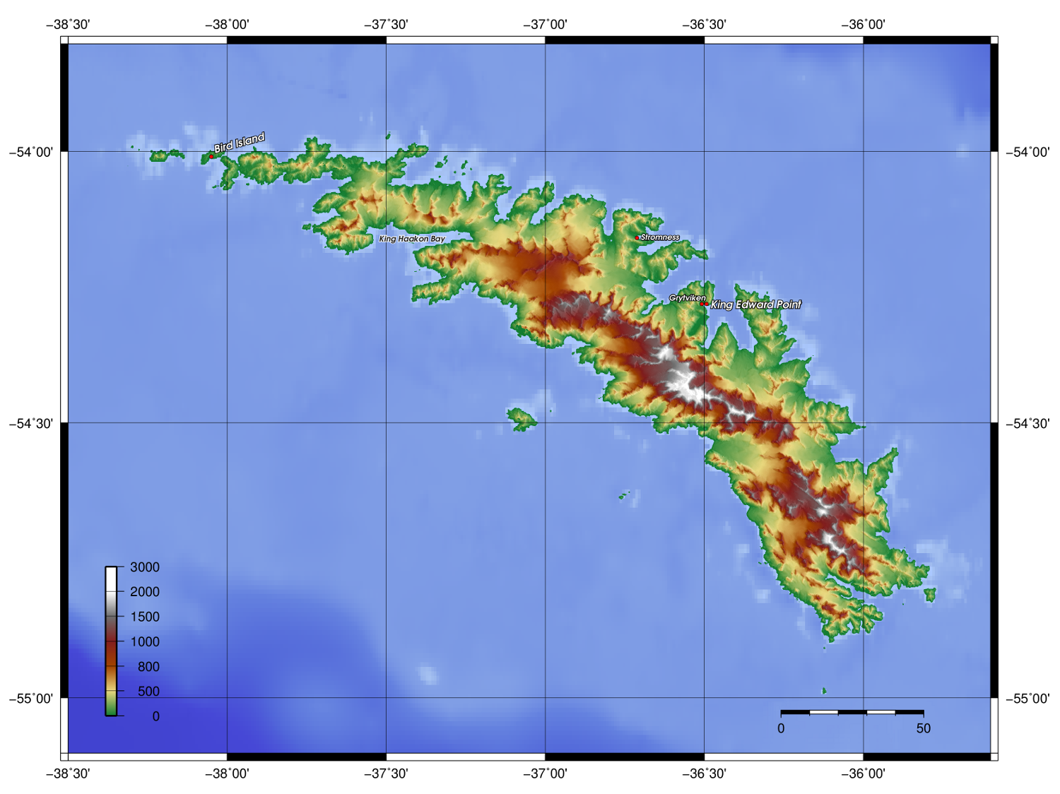 Topography of South Georgia, created with GMT 4.5.6